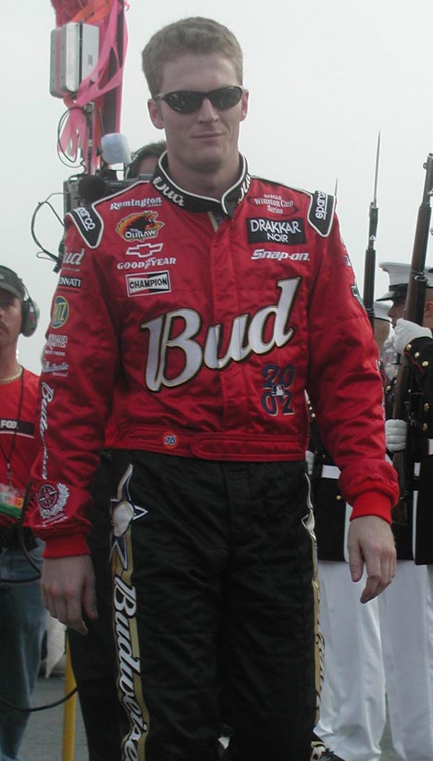 Dale Earnhardt Jr. walks through the column of Marines provided by the Silent Drill Platoon after Earnhardt Jr. is introduced during the NASCAR Winston Cup race at Daytona International Speedway July 6. Photo by: Cpl. Stacey Bullock